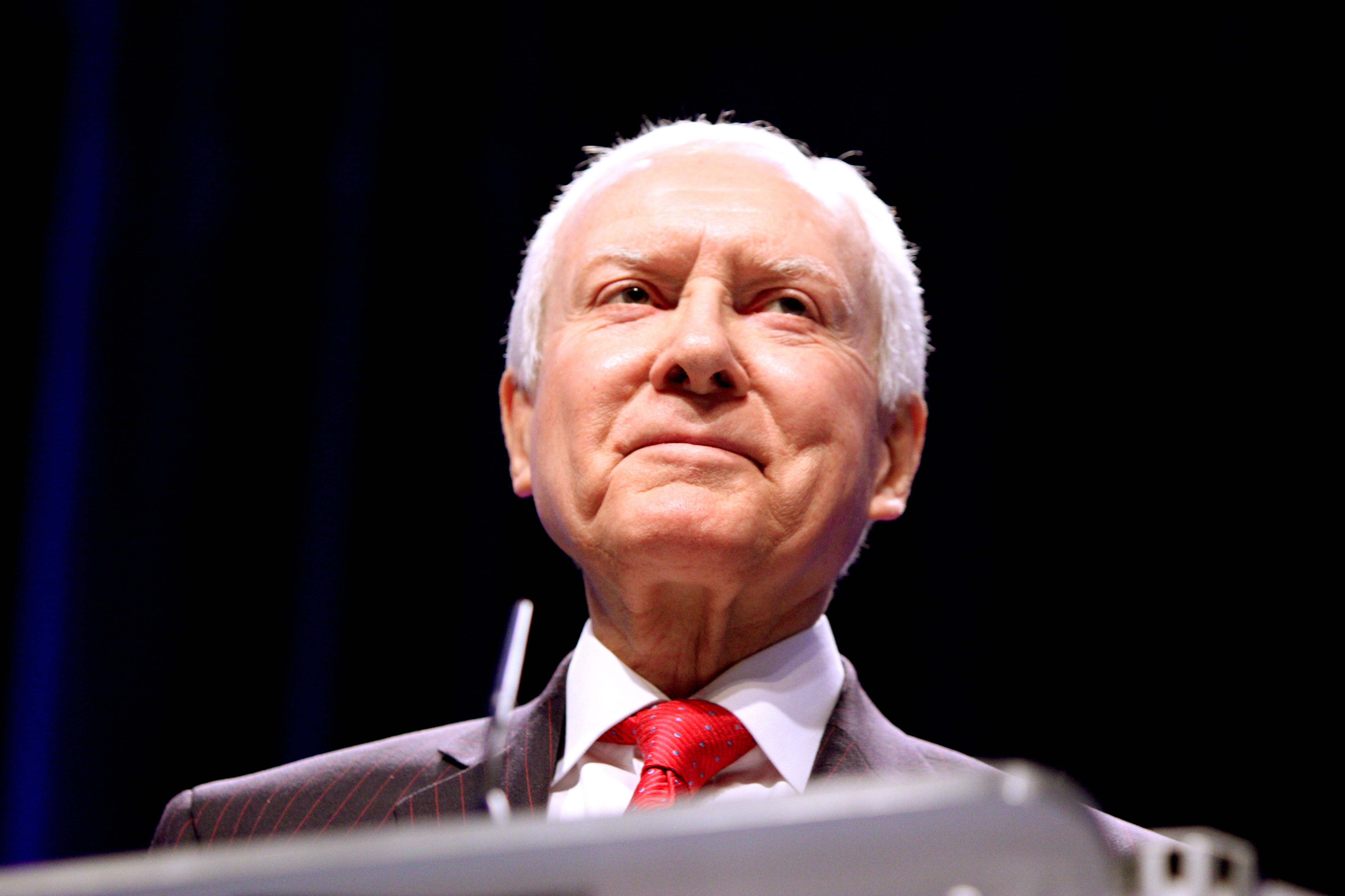 Senator Orrin Hatch of Utah speaking at CPAC 2011 in Washington, D.C.